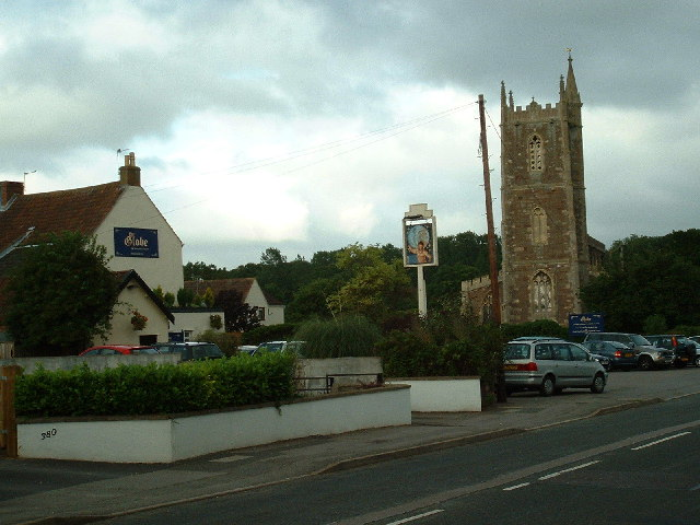 Frampton Cotterell. The Globe pub and Frampton Cotterell parish church sit inside the extreme Southern edge of the square near to the river Frome